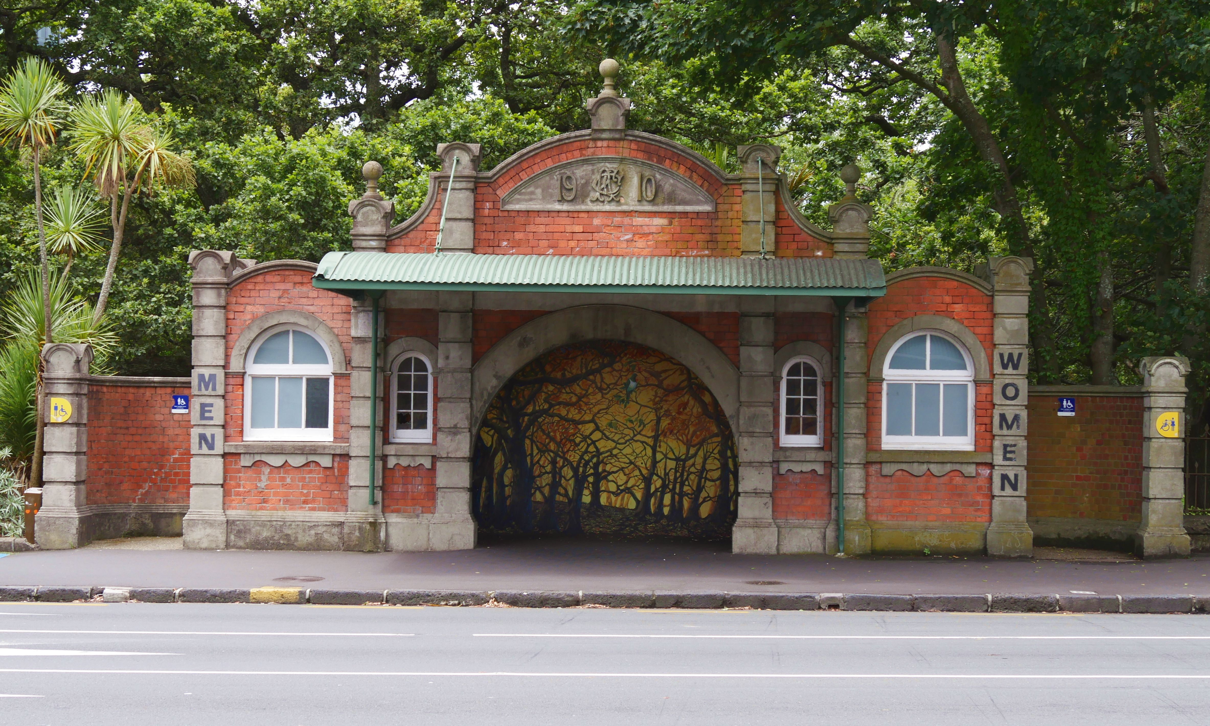 Bus Shelter and Toilets, Symonds Street / Grafton Bridge, Auckland, New Zealand, build 1910